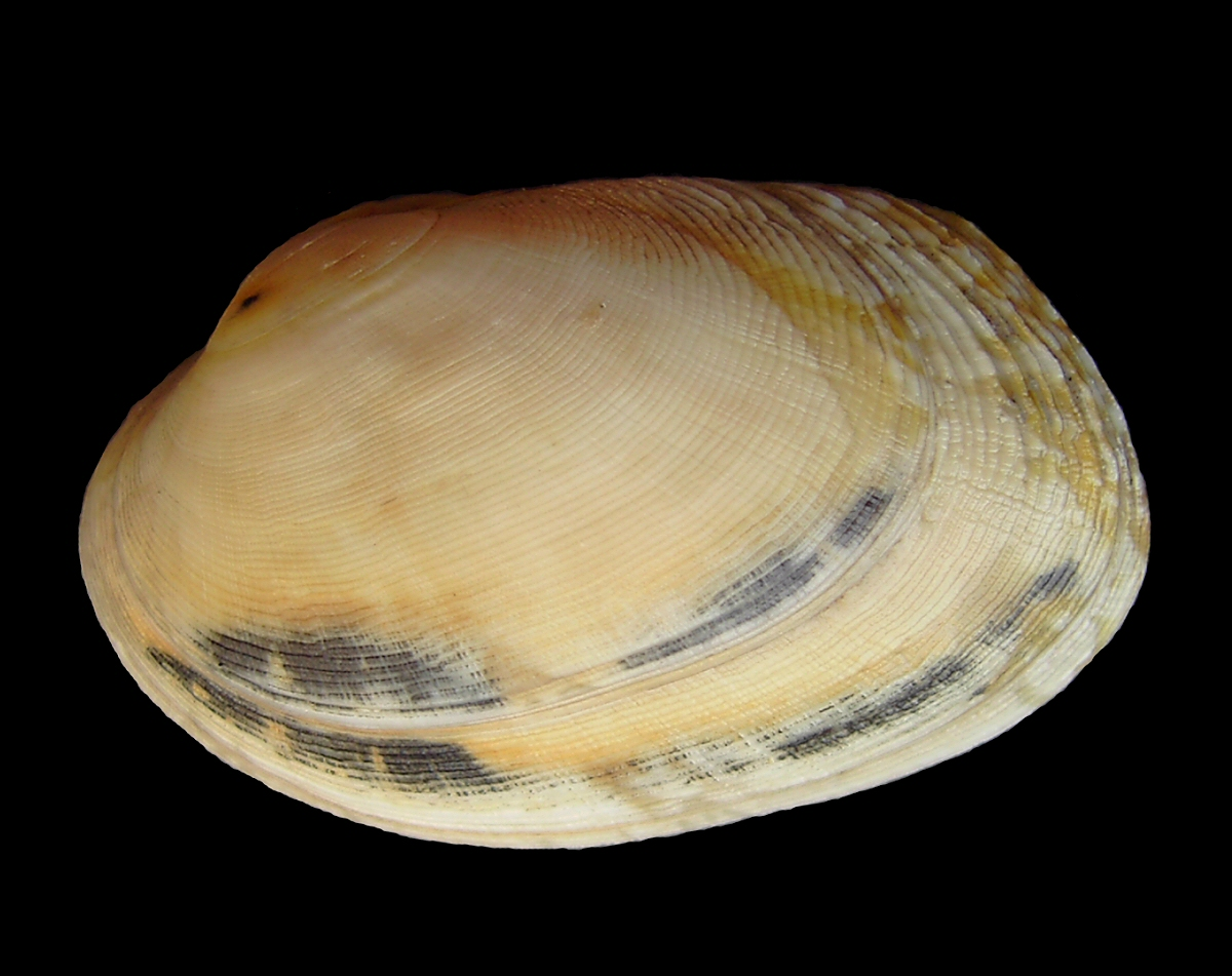 Pullet carpet shell on board of the RV Belgica (lab image).